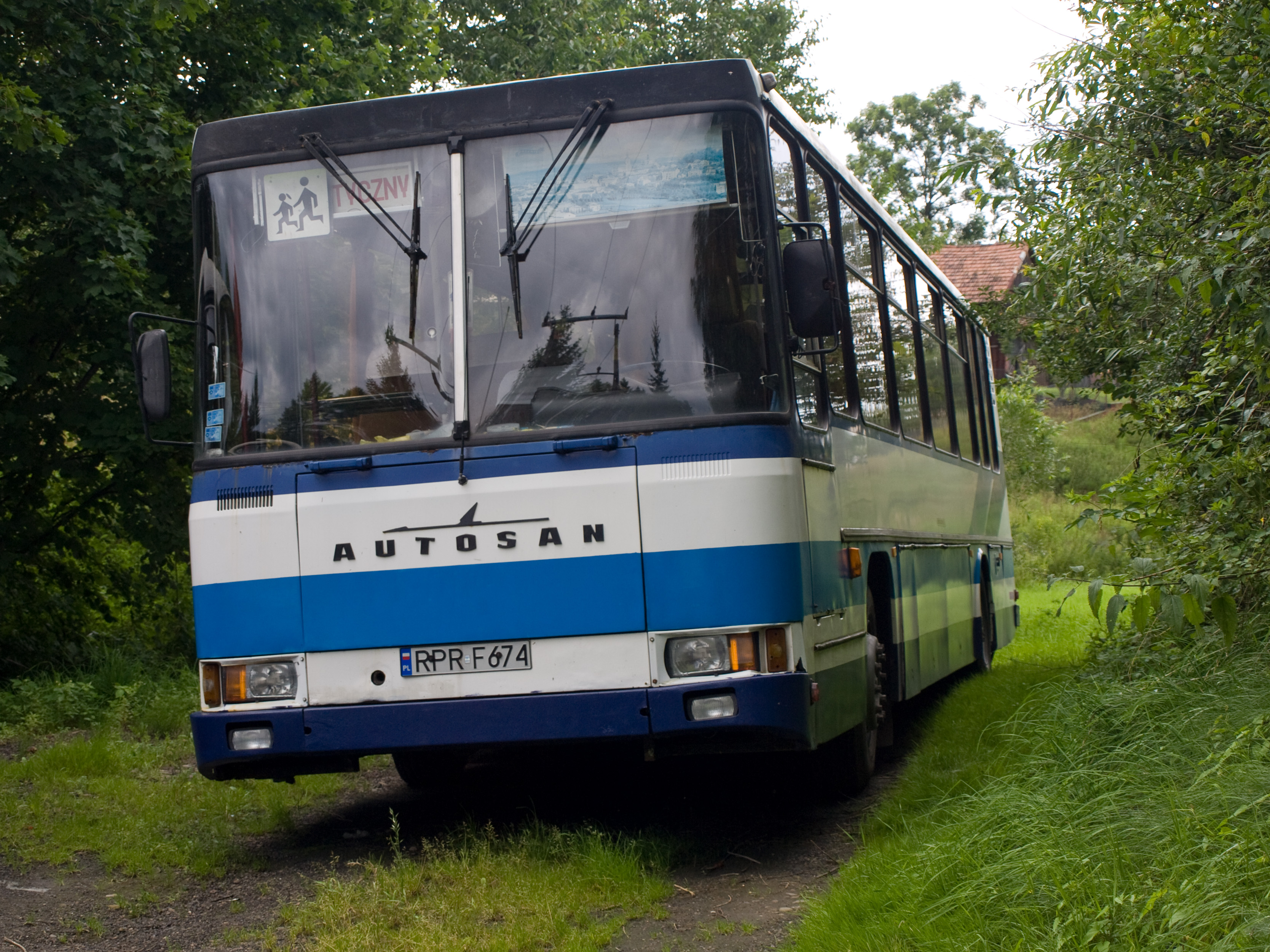 Autosan H10-11 bus (reg. RPR F674) in Babice village, Subcarpathian Voivodeship, Poland.